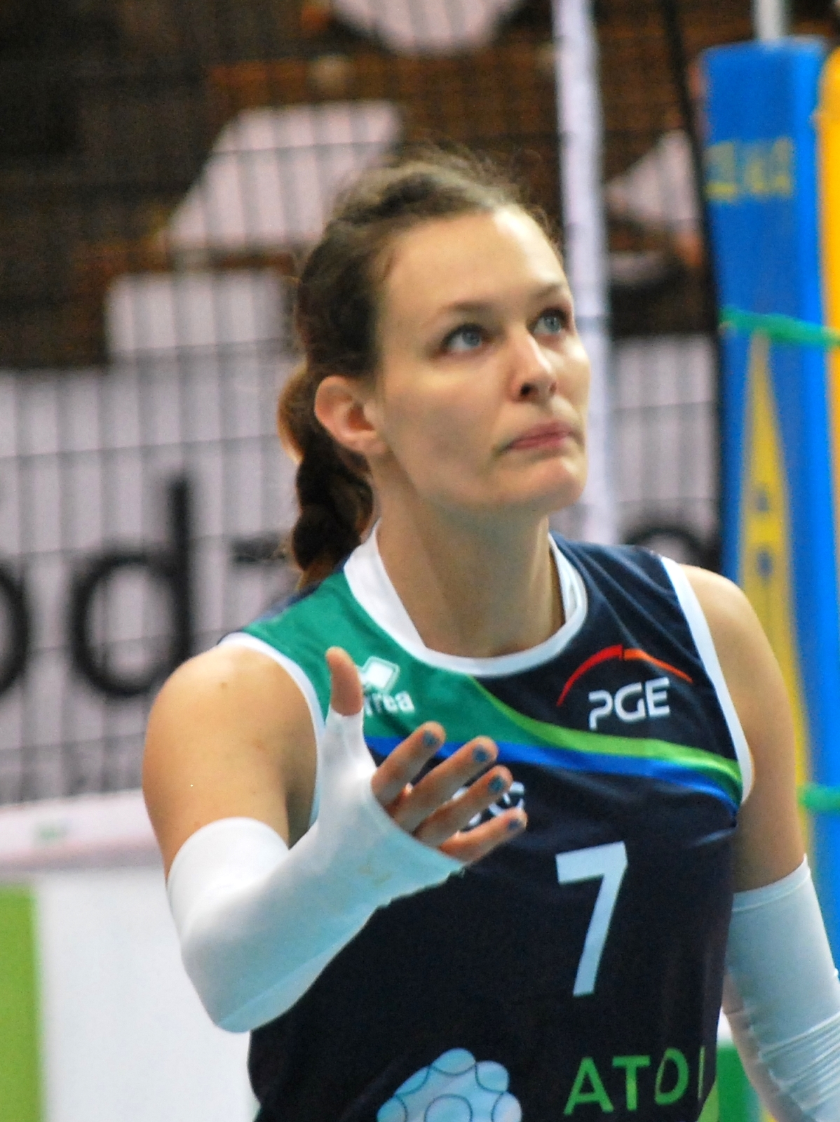 Amaranta Fernandez, polish volleyball player